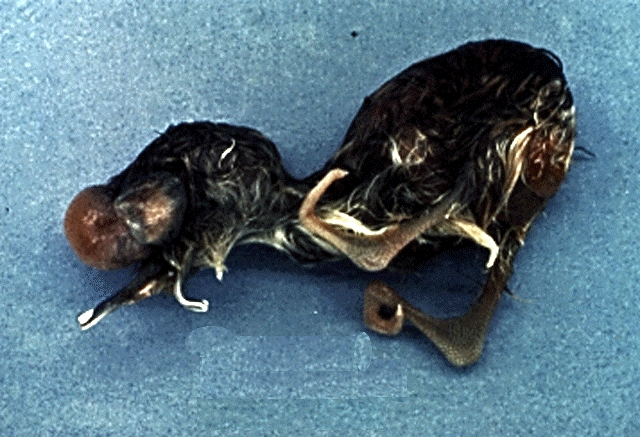 Deformed baby duck at Kesterson Wildlife Refuge (USA). Wildlife moved into the wetlands and prospered until selenium leached from marine shales in the Coast Ranges built up in the food chain and resulted in terrible mutations in higher life forms such as this baby duck.